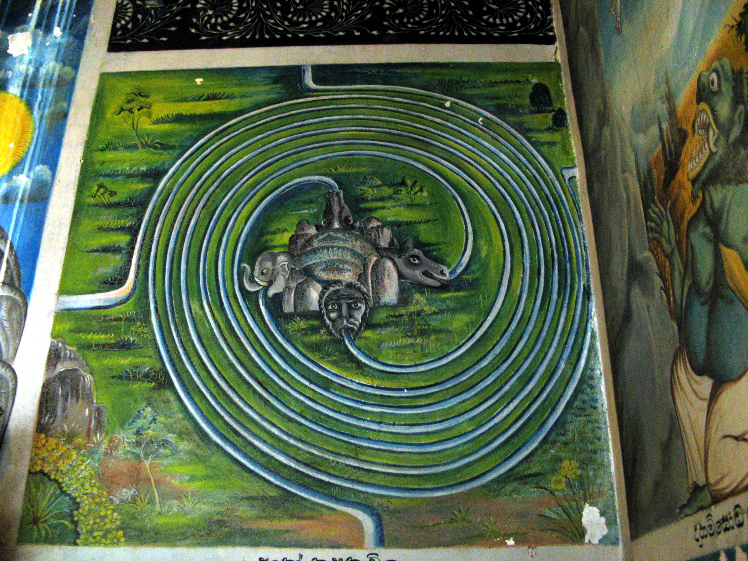 This painting at Aluvihara represents the Himalaya mountain range, and the four great rivers that flow from it, as understood in Tibetan (sic) cosmology. These rivers symbolically issue from the mouth of a lion, elephant, horse, and peacock respectively. Their names are variously given, depending on the source, but the Indus is always included among their number. It is interesting to find a Tibetan sacred landscape as far south as Sri Lanka. The course of the rivers has been arranged into a circular maze, that could even be interpreted as a sort of mandala or concentration aid, where viewers can attempt to trace the individual course of each river in their mind's eye.